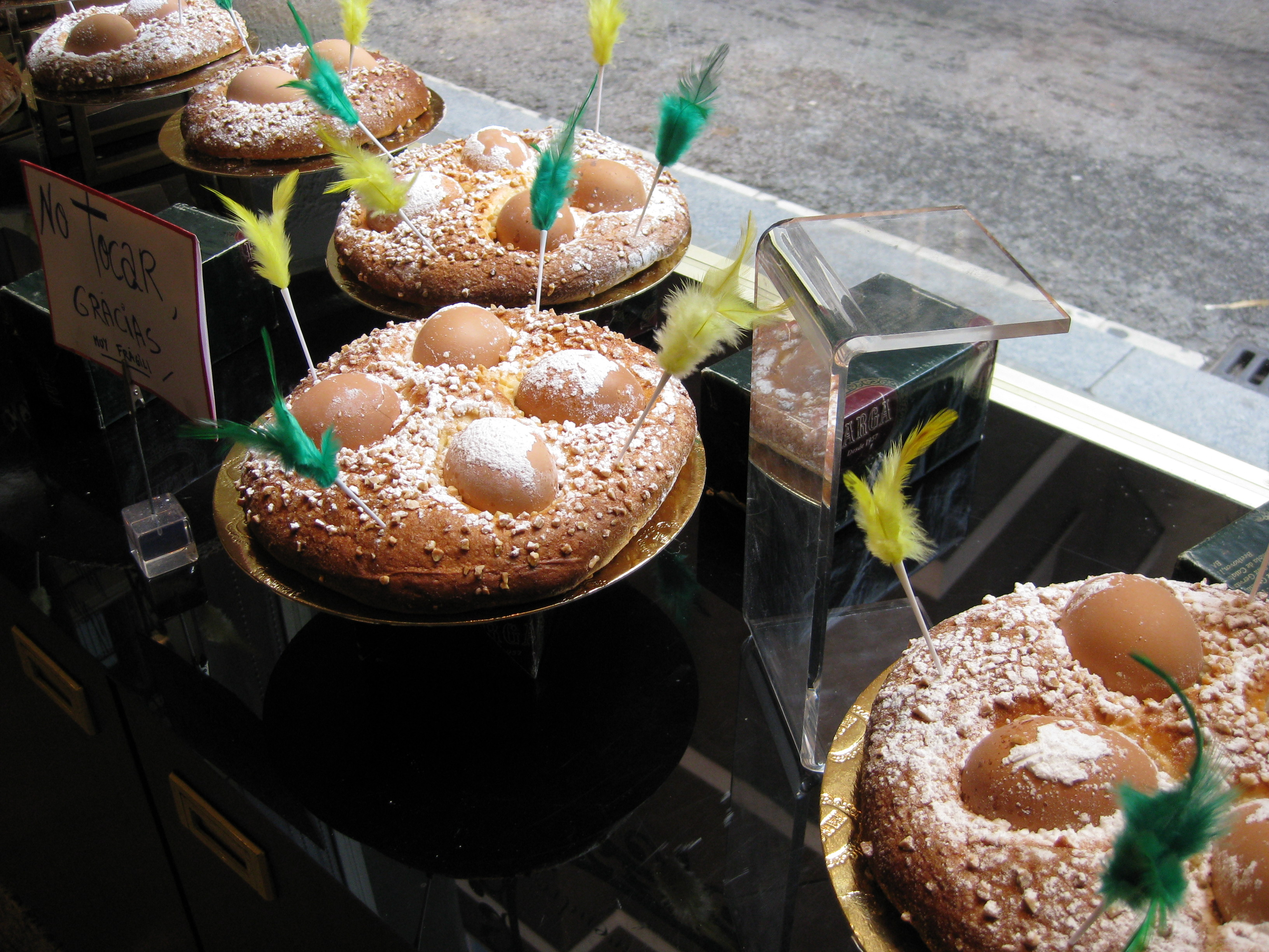 Barcelona By Alyson - 102